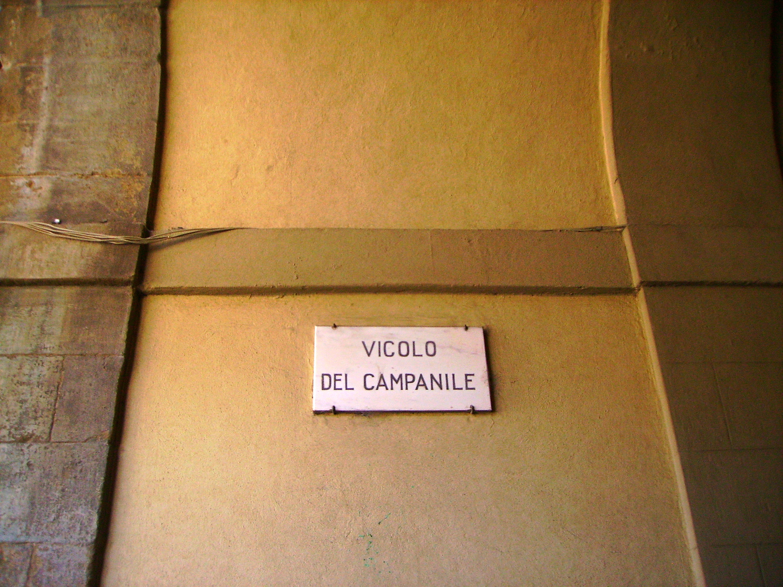 The Tower Bell Alley in Montevarchi, where formerly was the entrance of Cini Theatre